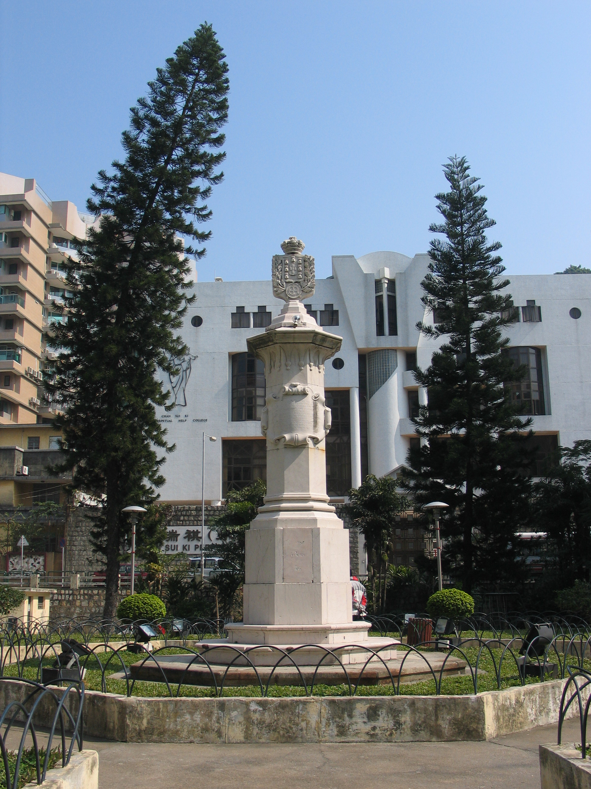 Jardim da Vitória in Macao Source: taken by Glio